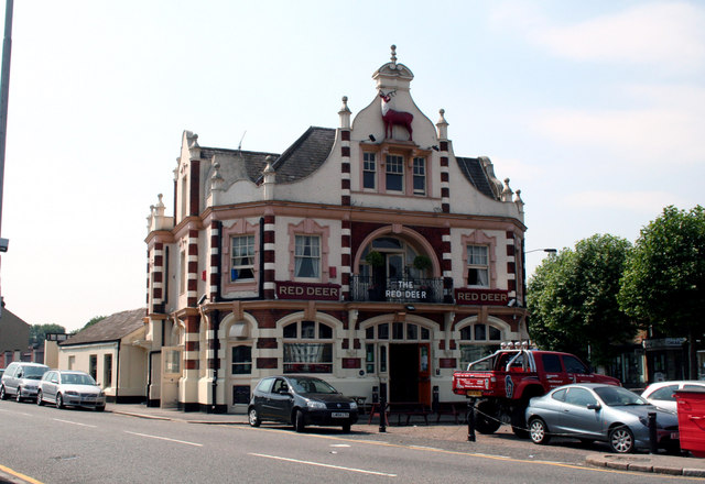 The 'Red Deer', South Croydon, Surrey For many years this handsome Victorian pub had stood proudly at the junction of Sanderstead Road and Brighton Road in South Croydon. The destination 'South Croydon, Red Deer' still appears on many buses short-working to this point, which is near the South Croydon bus garage.